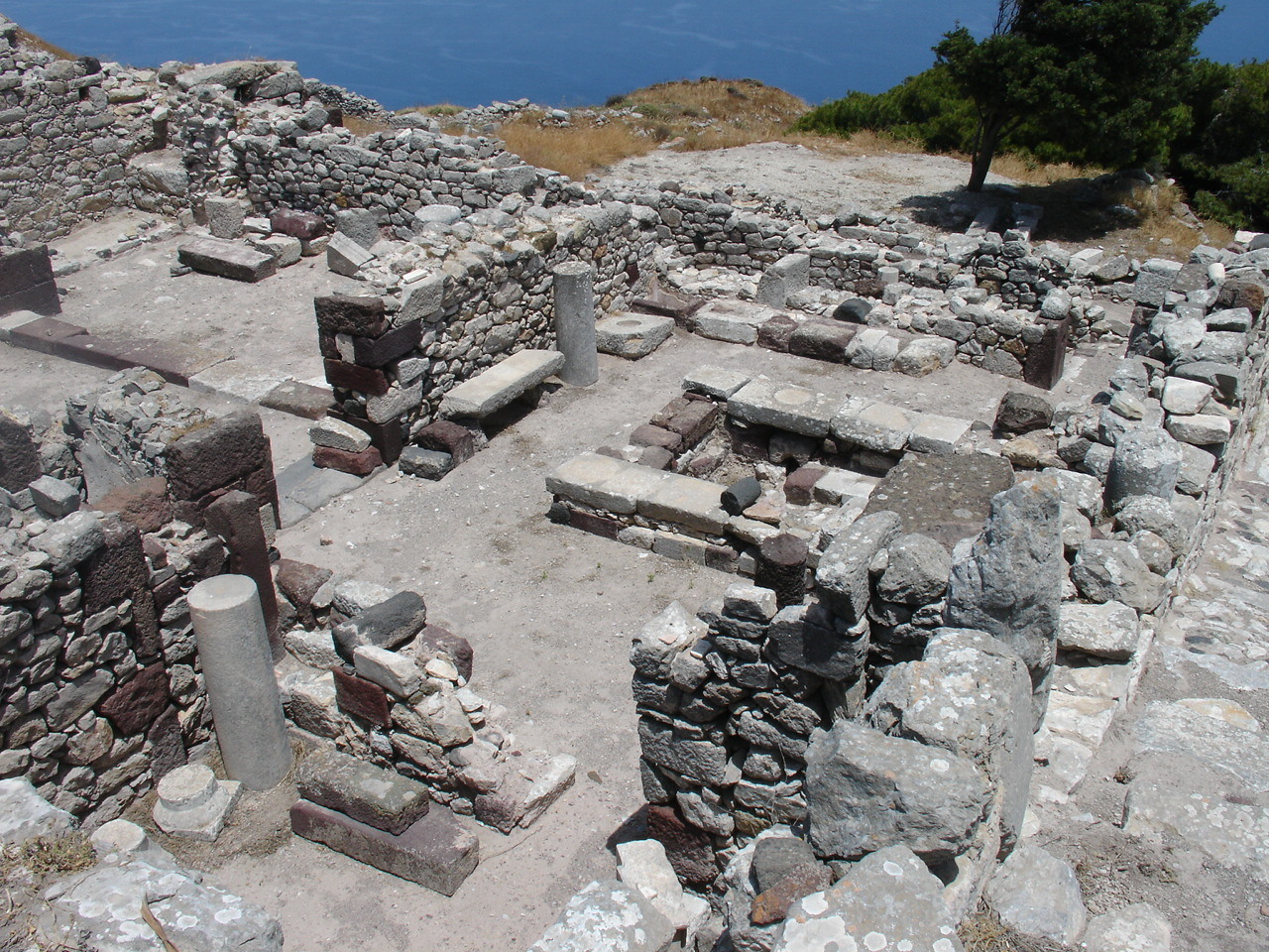 Ruins of Ancient Thira, Santorini, Greece.